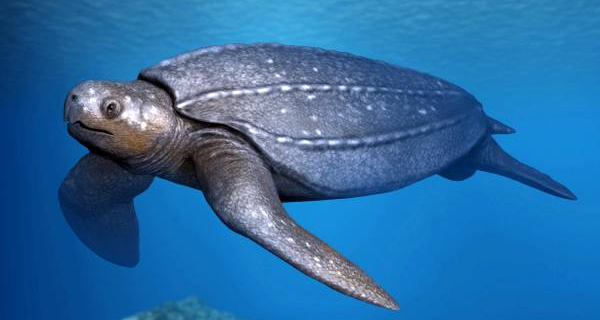 Crop of file in filename